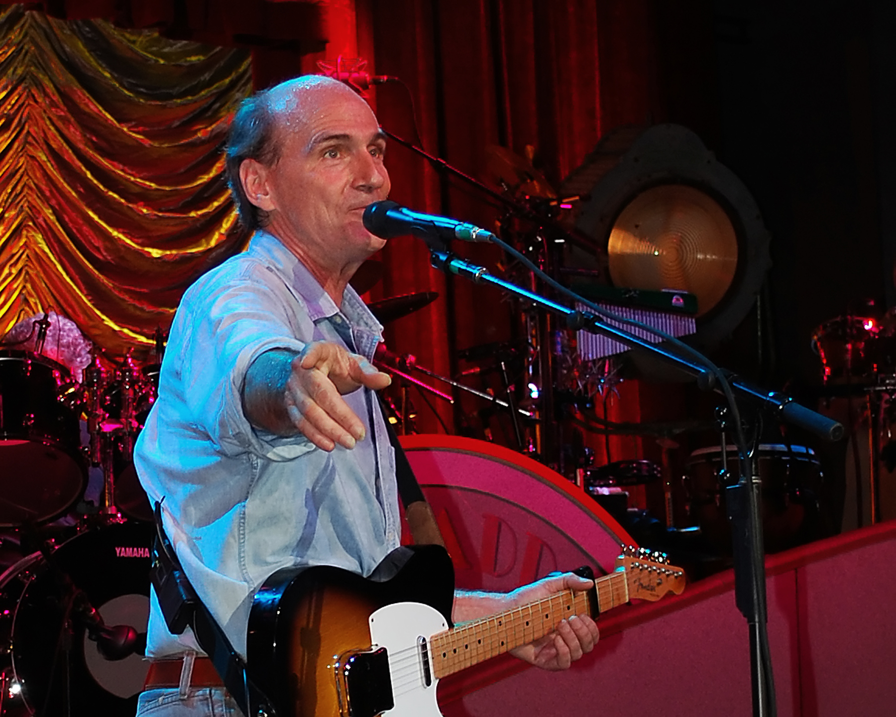 James Taylor opened the holiday weekend with concerts on July 3rd and 4th at Tanglewood in Lenox, MA.